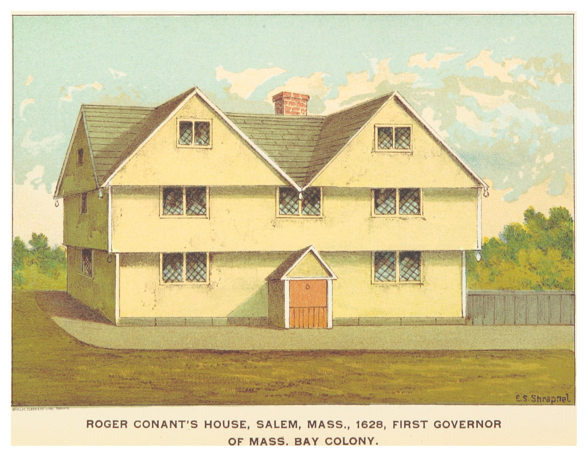 Governor Roger Conant's "Great House", originally at what is now Stage Fort Park in Gloucester in 1625, relocated in 1628 by his successor John Endecott to Salem, on Washington Street north of Church Street.[1] When Rev. Higginson arrived in Salem, he wrote that "we found a faire house newly built for the Governor" which was remarkable for being two stories high.[2] This drawing shows the house after renovations of 1792 that added another floor and facing material.